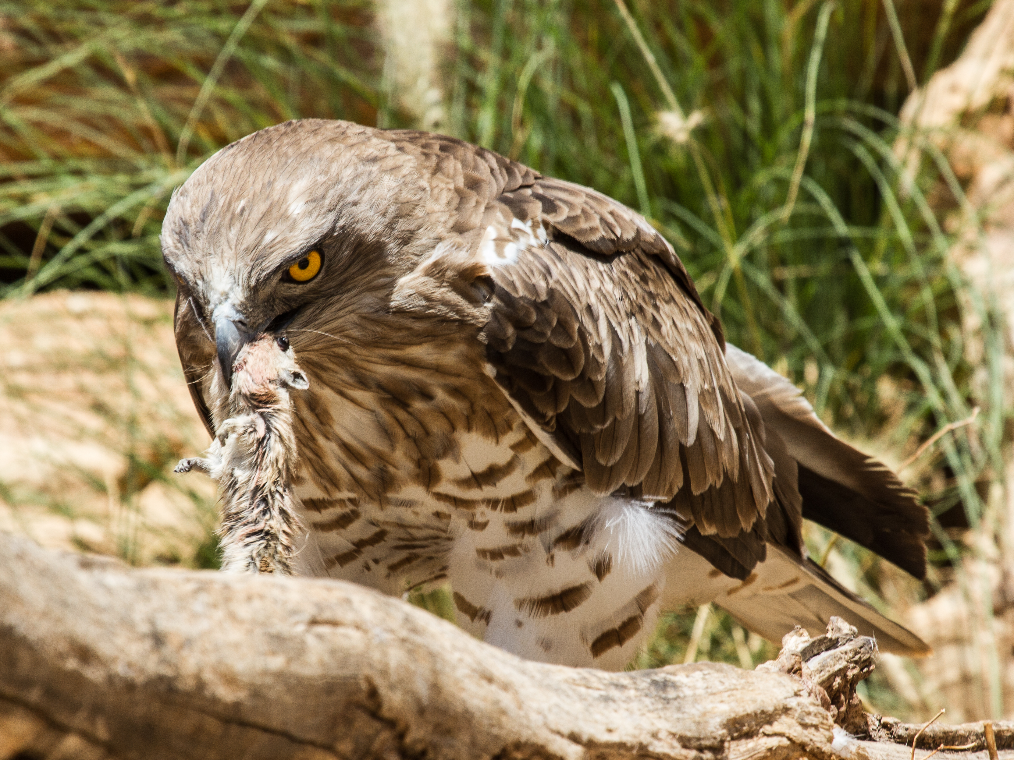 Short-toed snake eagle in Jerusalem biblical zoo at feeding time